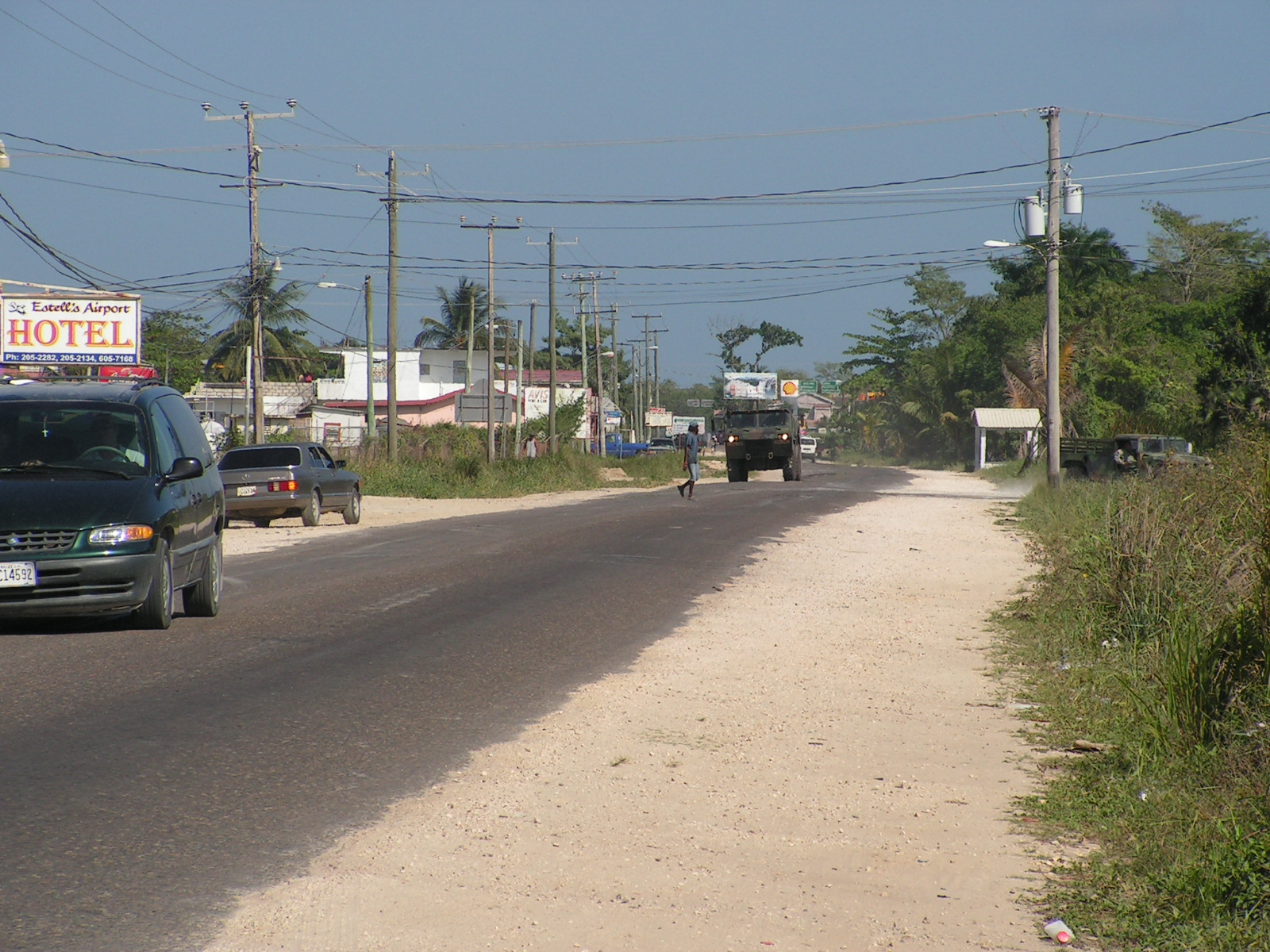 Another Picture in Ladyville of the northern highway that runs through the village.